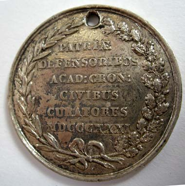 A medal from 1831